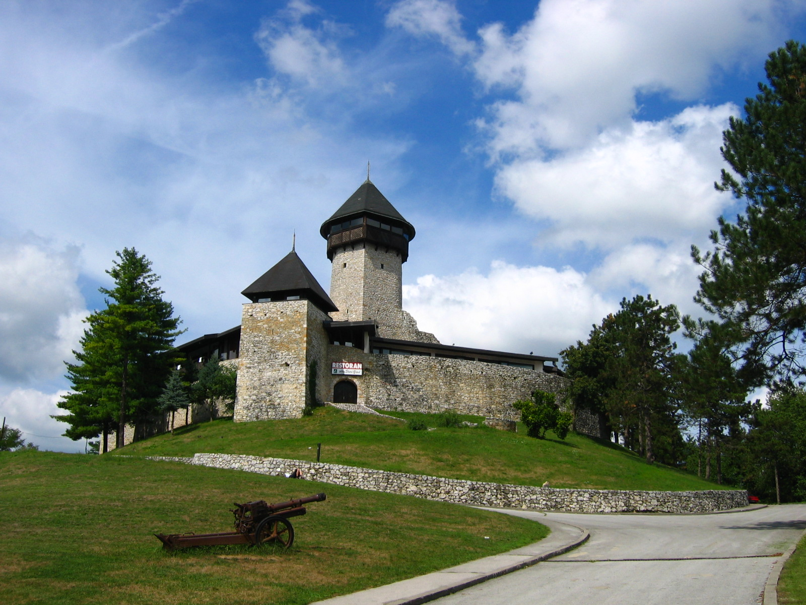 Castle in Velika Kladuša. Western Bosnia-Herzegovina.